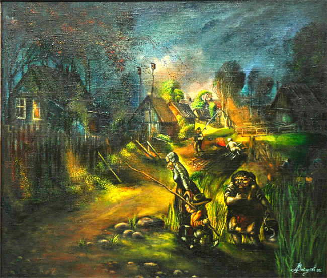 Vladimir Lisunov. "Thoughts", 1992. Canvas, oil. 60x71.